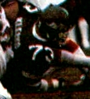 New York Jets defensive lineman Joe Klecko pictured in a defensive play during the 1981 AFC Wild Card Playoff Game on December 27, 1981.